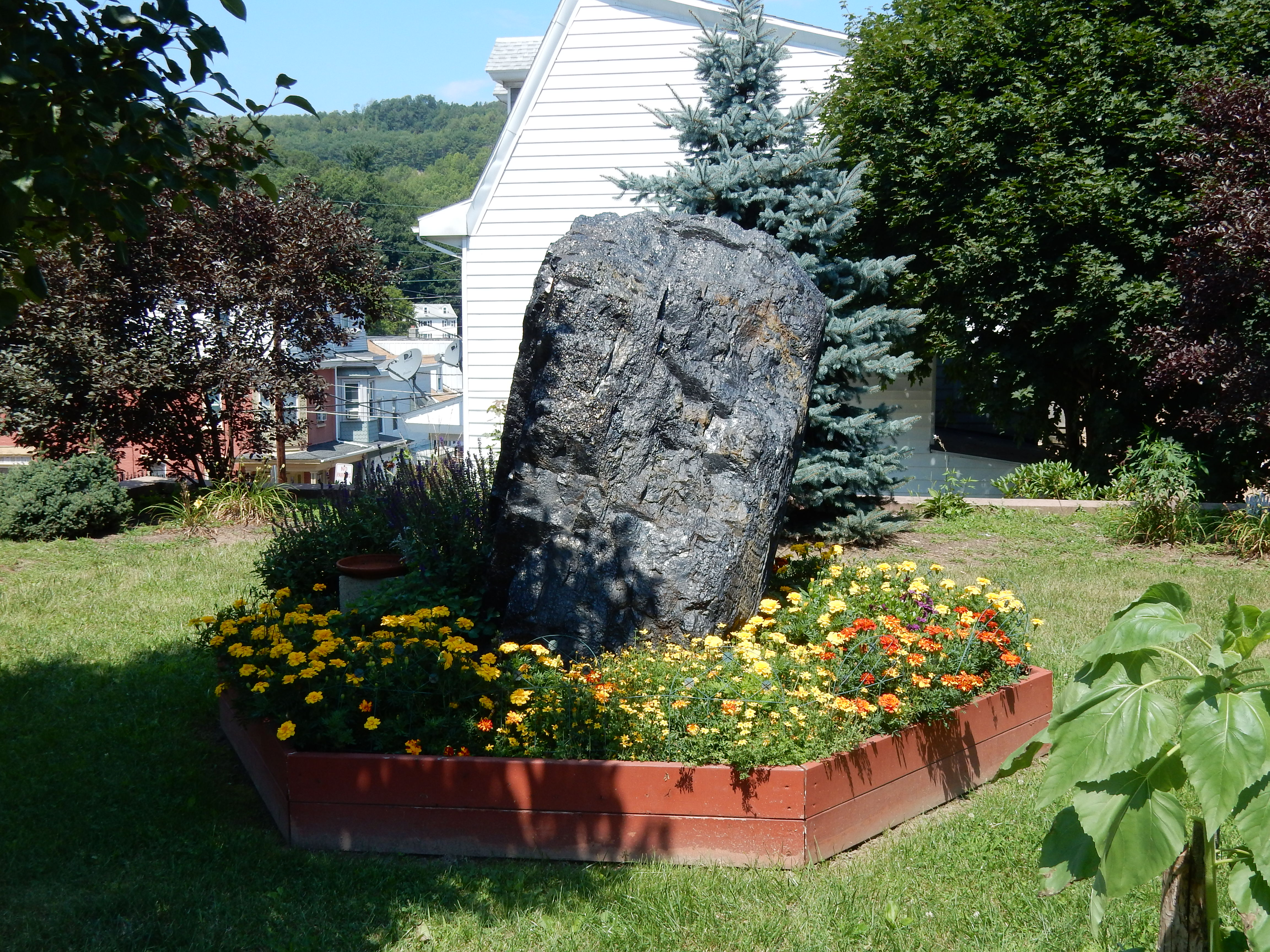 Anthracite monument on the corner of E. Main and N. 2nd Sts. in Girardville, Schuylkill County, Pennsylvania.